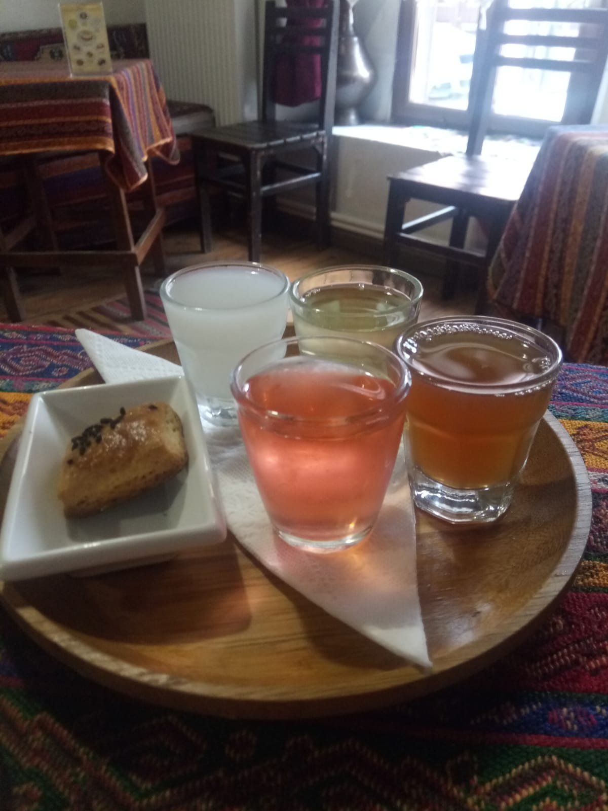 This photo has been taken in the country: Turkey